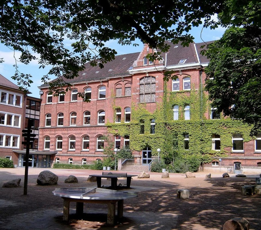 Exterior of the Athenaeum Stade